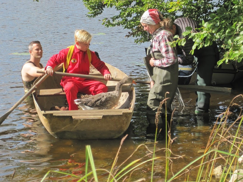 Katja Schumann working on the Danish film Gooseboy